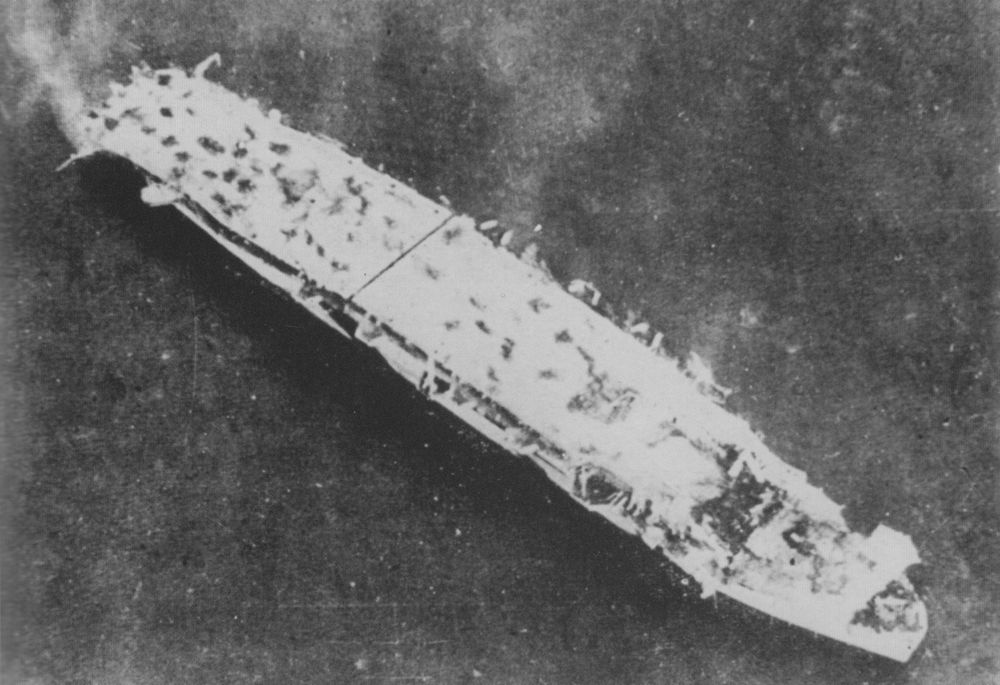 Ishihara Kisen K.K. oiler, Type Toku-1TL wartime standard ship Shimane Maru